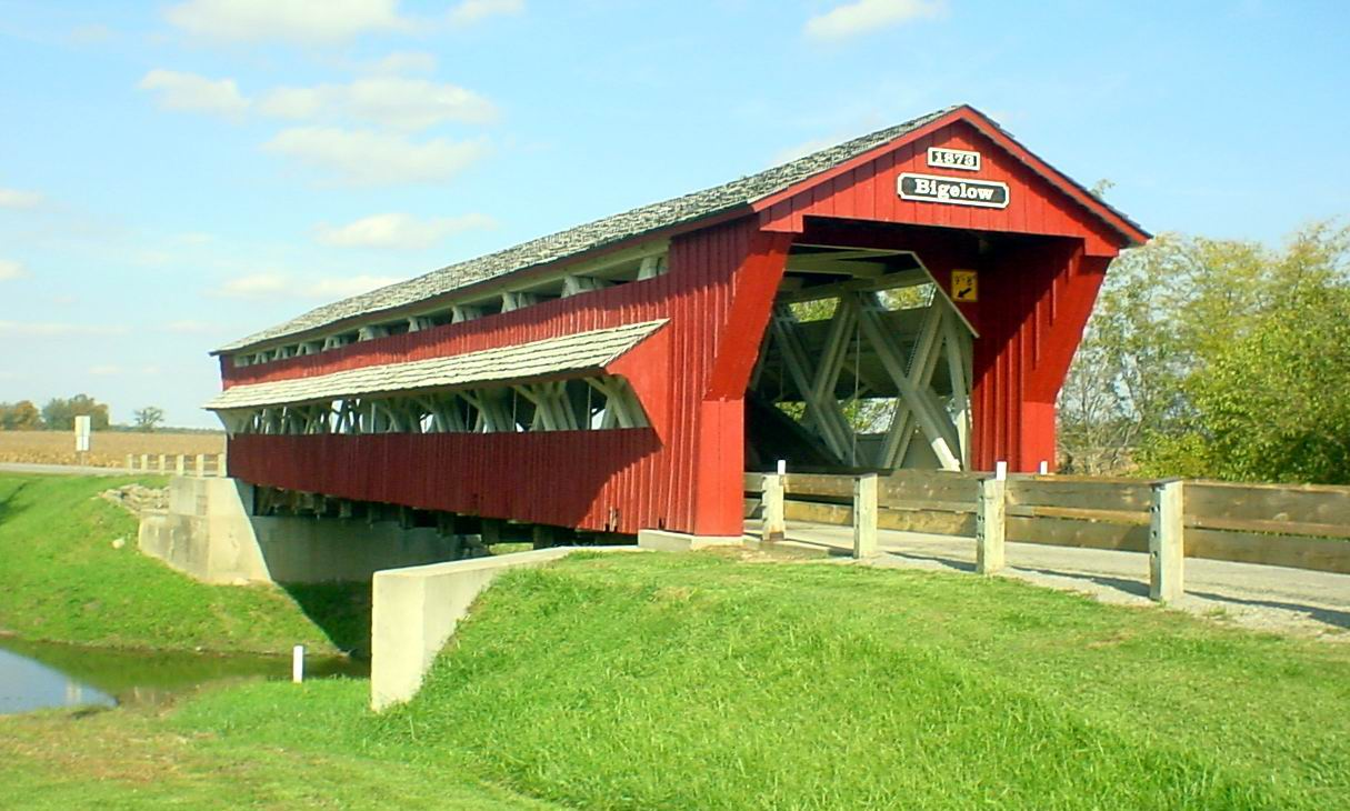 Southern portal of the Bigelow Covered Bridge, which carries Axe Handle Road over Little Darby Creek near Chuckery in Union Township, Union County, Ohio, United States. This Burr arch truss bridge was built in 1873.